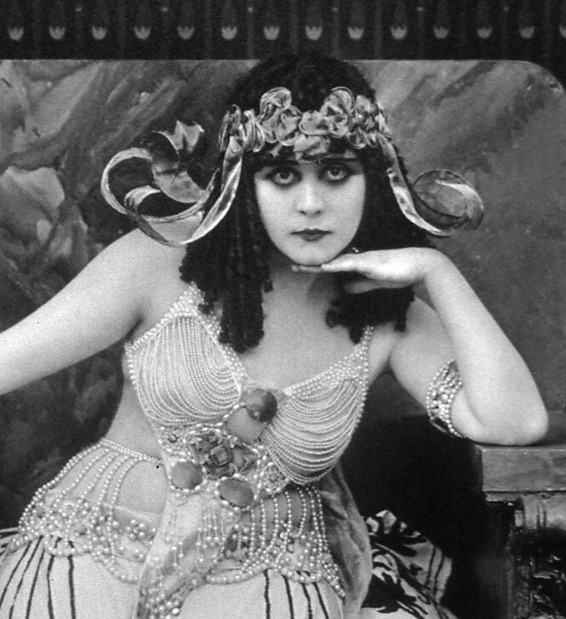 Theda Bara in the American film Cleopatra (1917)